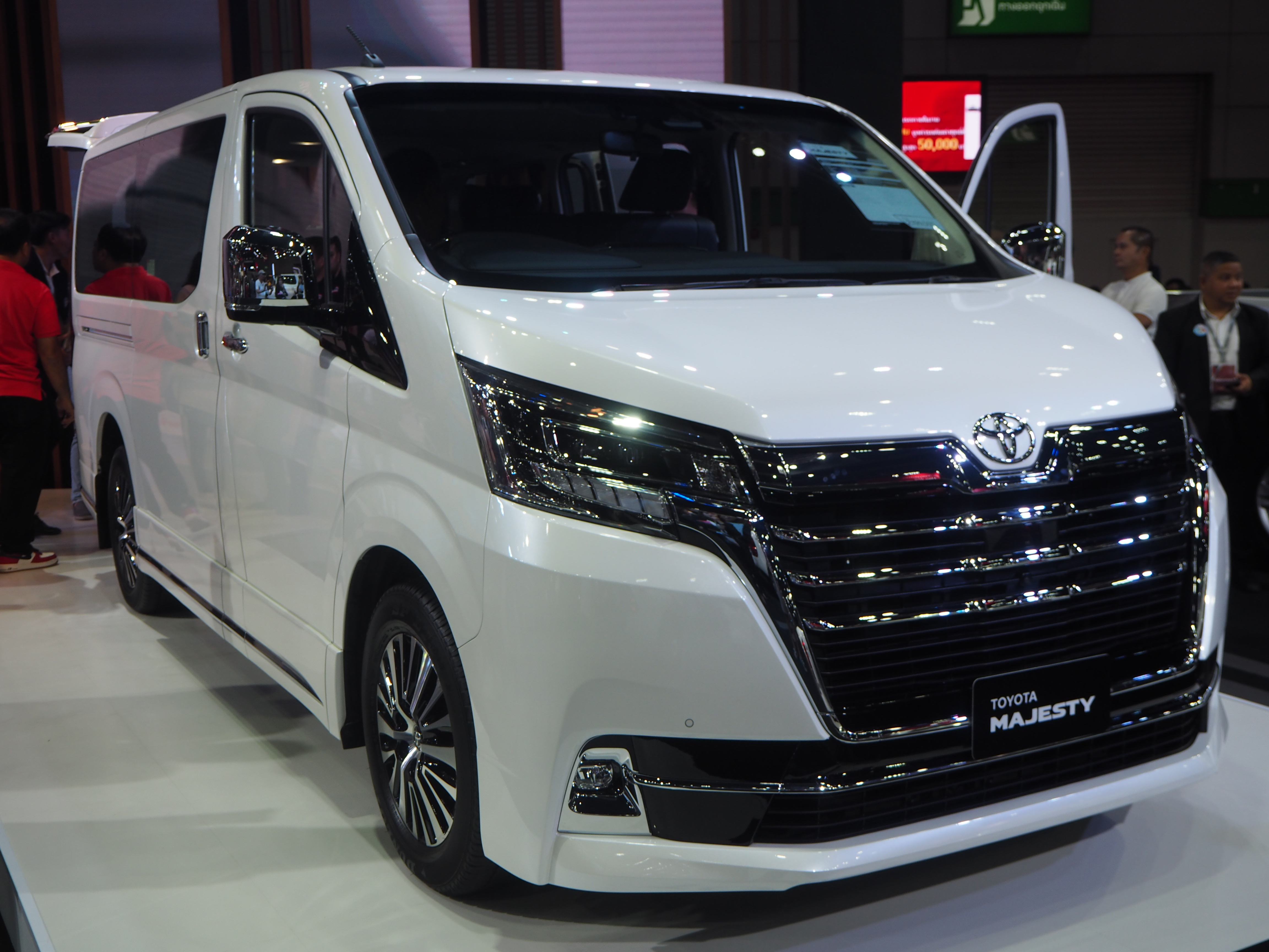 2019 Toyota Majesty Grande in BITEC, Bangna, Bangkok, Thailand.